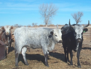 A Corriente cow and calf for the "Corriente cattle" article. Photograph by Gary D. Robson